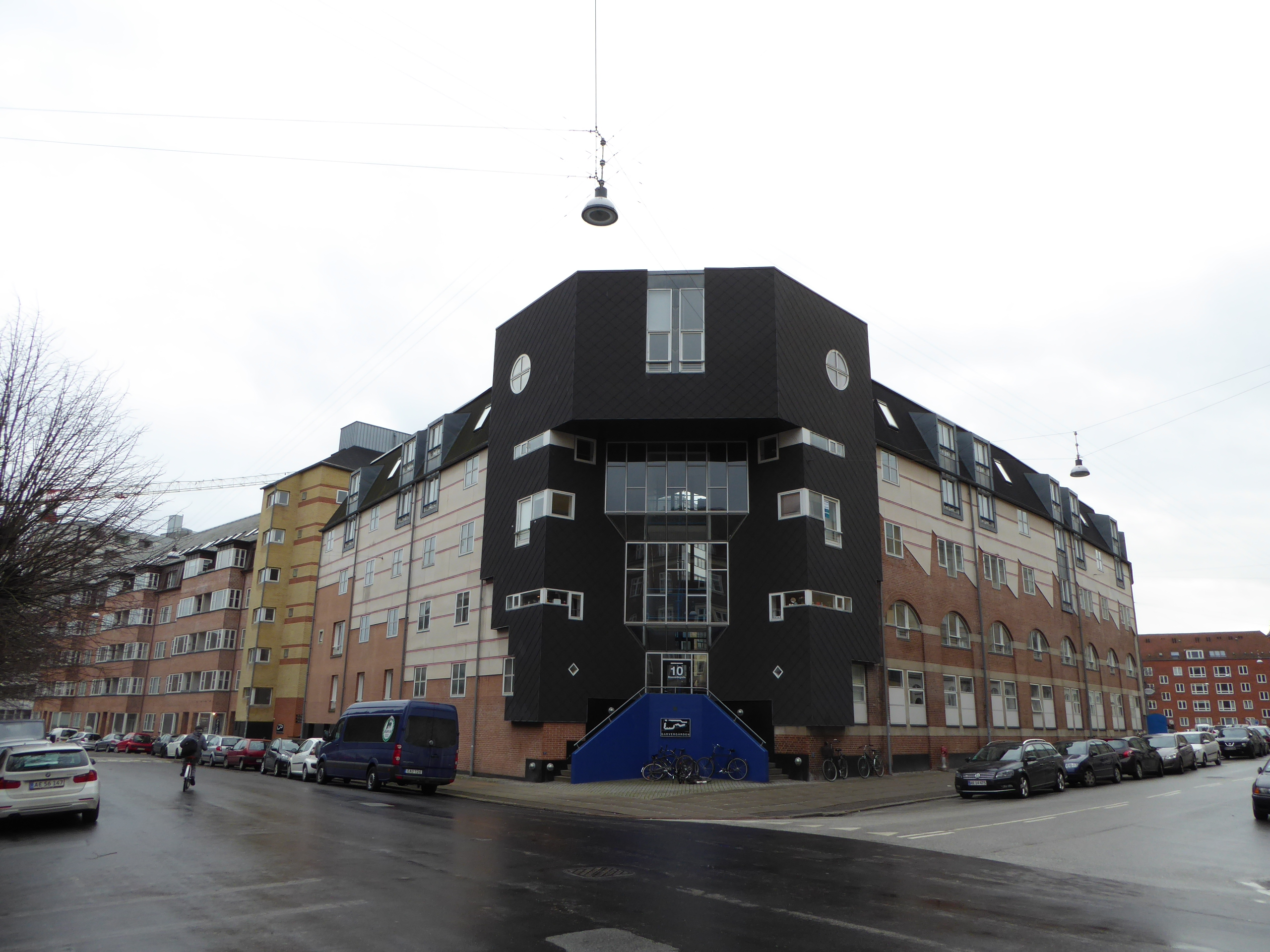 The building Garvergården at the corner of Tåsingegade and Masnedøgade in Østerbro in Copenhagen.